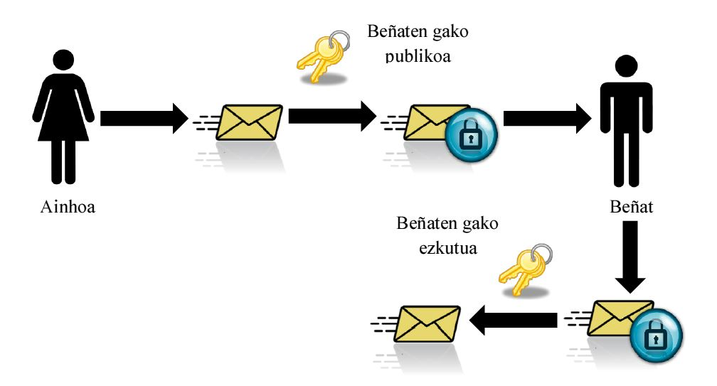 Asimetrikoa